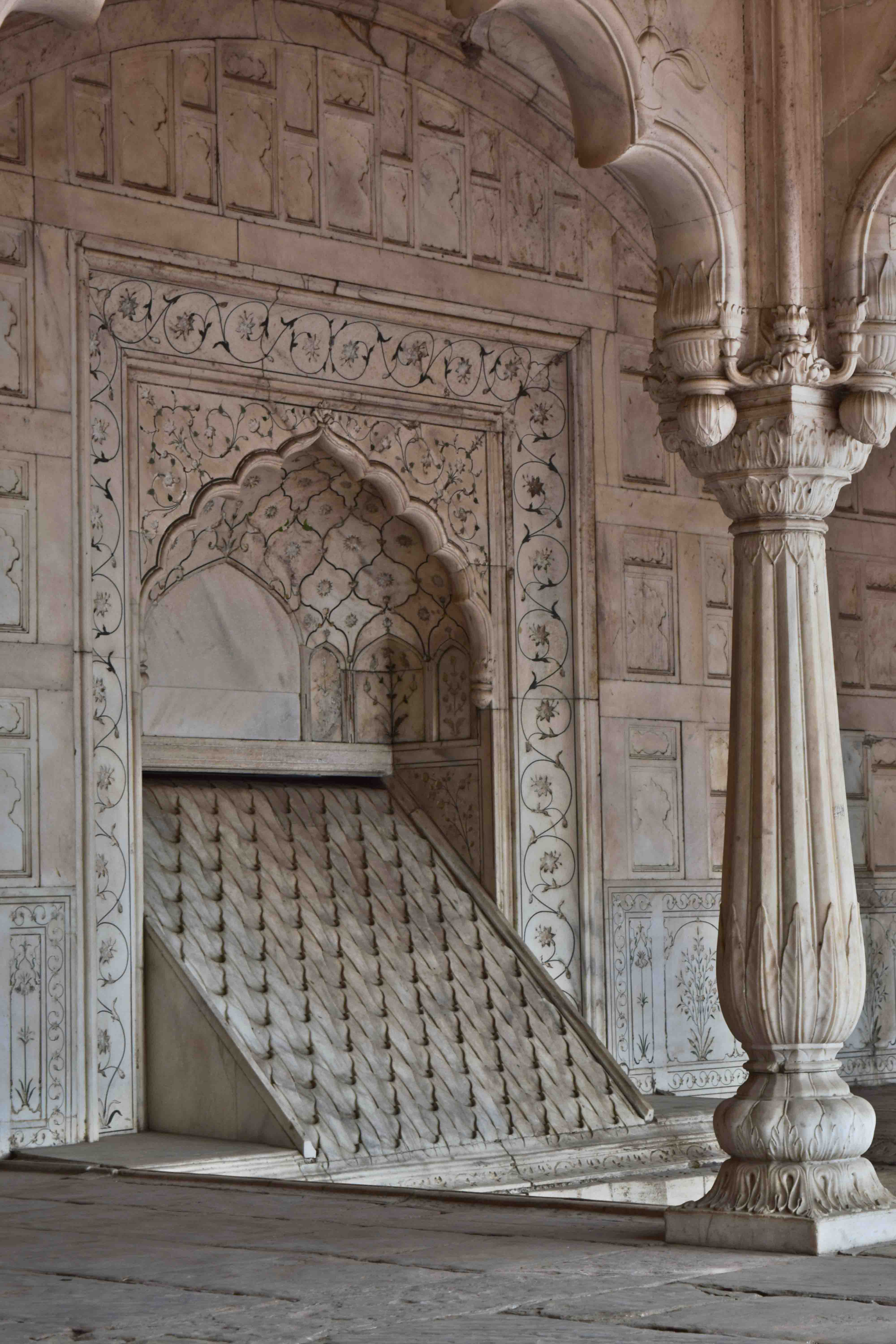 Delhi fort or Lal Qila (Red Fort), Naubat Khana, Diwan-i-am, Mumtaz Mahal' Rang Mahal, Baithak,Maseu Burj, diwan-i-Khas' Moti Masjid, sawan Bhadon ,Shah Burj, Hammam with all surrounding including the gardens, paths, terraces and water courses. Built 1638 - 1648 A.D.